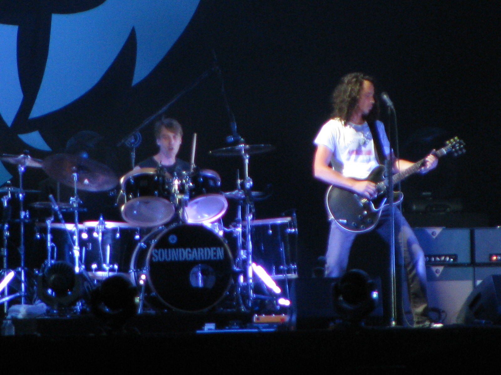 Matt Cameron and Chris Cornell live at 2010